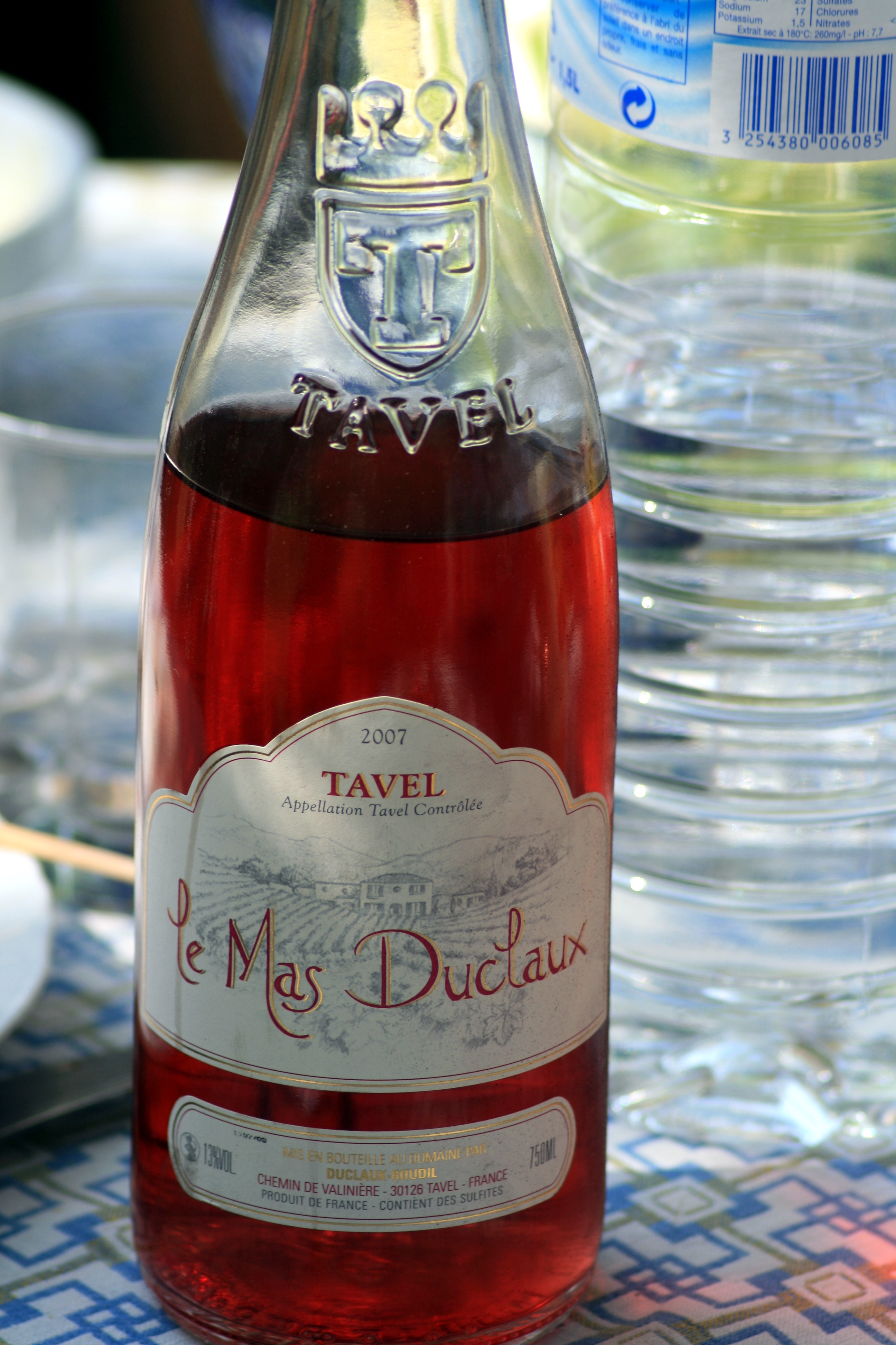 French rose wine from the Tavel wine region of the southern Rhone.